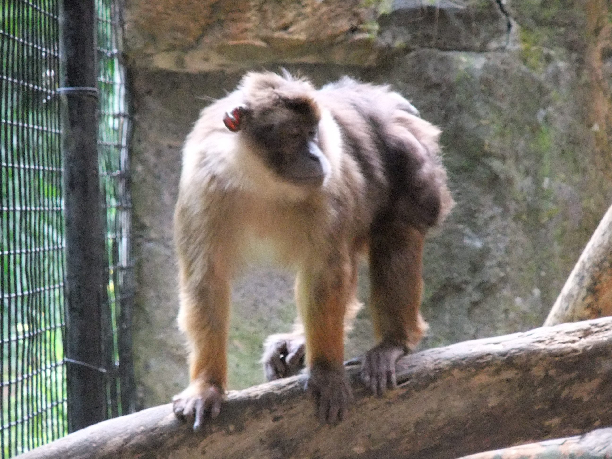 Pagai Island Macaque (Macaca pagensis), Safari Park, Cisarua, West Java, Indonesia